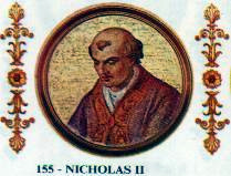 Portrait of Pope Nicholas II in the Basilica of Saint Paul Outside the Walls, Rome